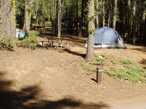 Crane Flat Campground, Site 503 — Yosemite National Park.